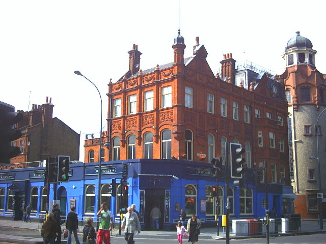 The Bush Theatre pub (until October 2011) on the corner of Goldhawk Road and Shepherd's Bush Green. The building to the right is the Shepherd's Bush Empire, once the BBC TV Theatre. Beyond that is a Walkabout pub and then a bingo hall. Busy place, Shepherd's Bush Green west side!